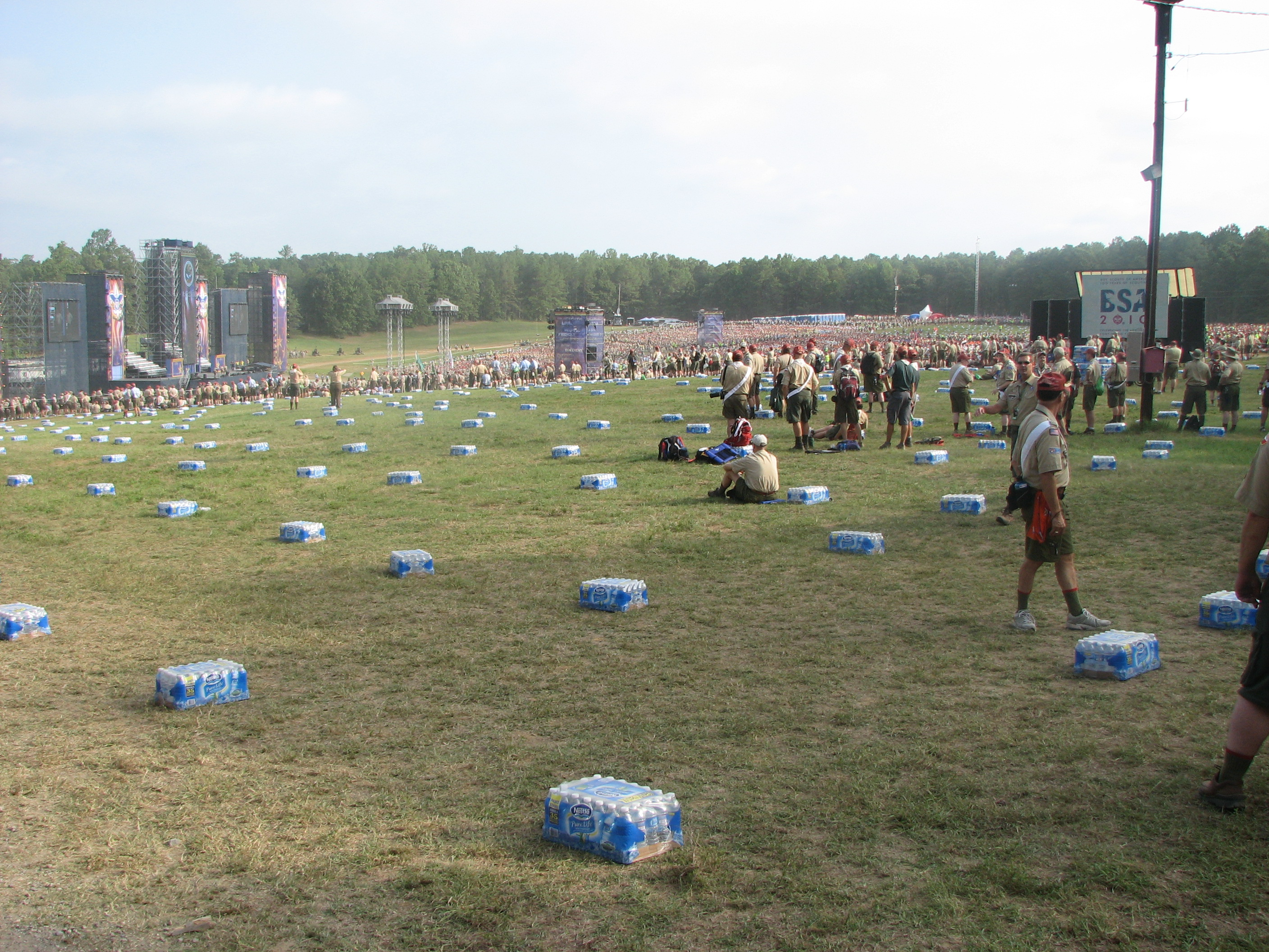 Packages of water bottles at the south end of the arena at the 2010 National Scout Jamboree. A far cry from the water shortage at the 2005 jamboree's first arena show.